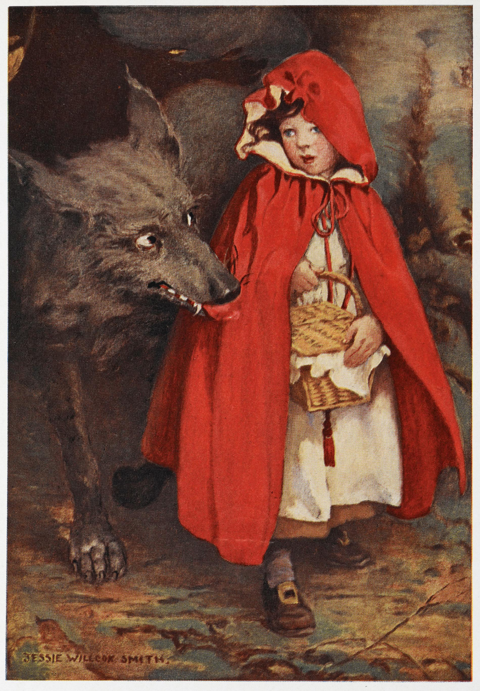 Little Red Riding Hood by Jessie Willcox Smith, 1911. From the book A Child's Book of Stories (link to page).